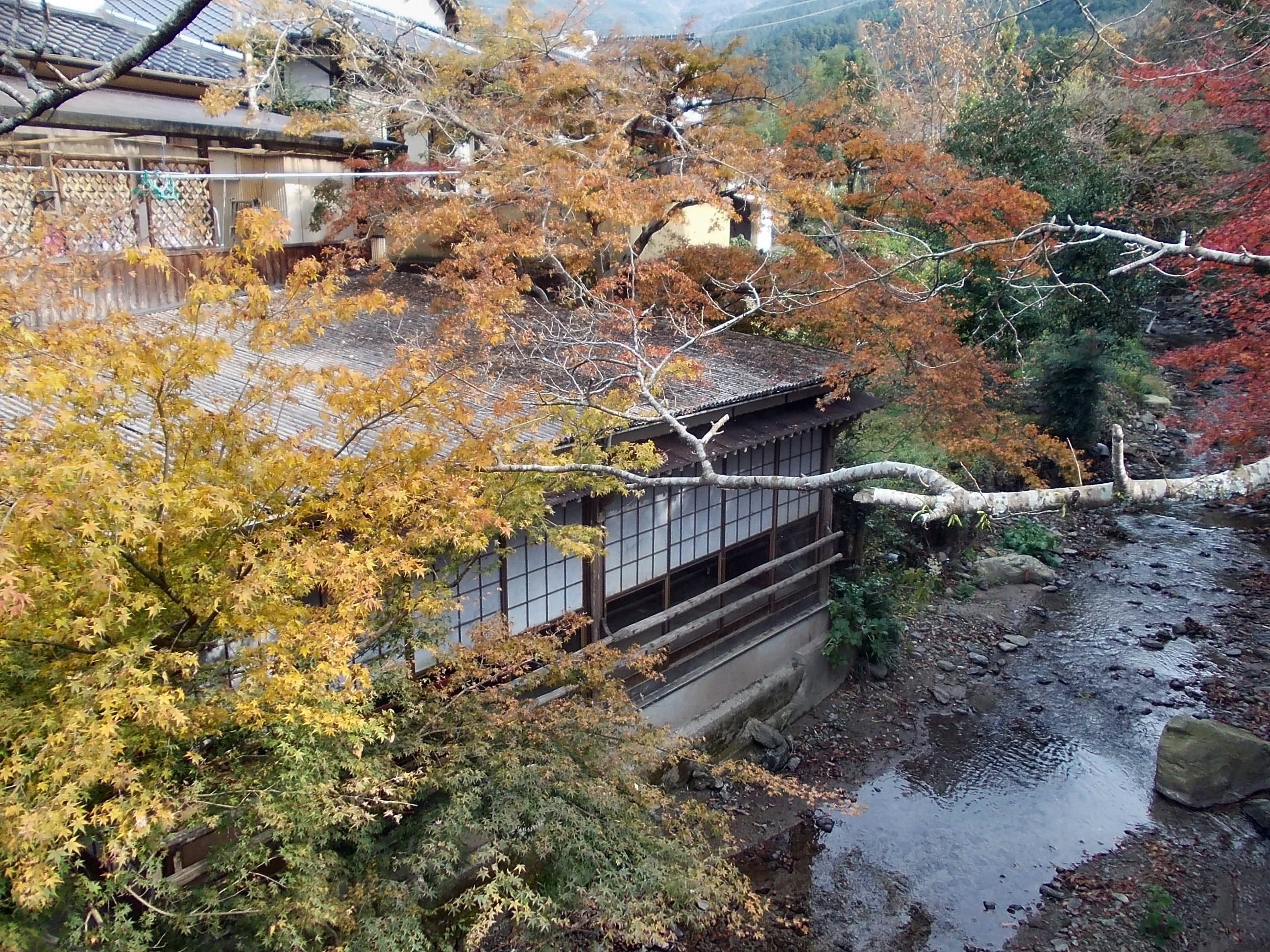 Autumn colour along the Notori River running through to Akizuki castle town in Asakura, Fukuoka, Japan.